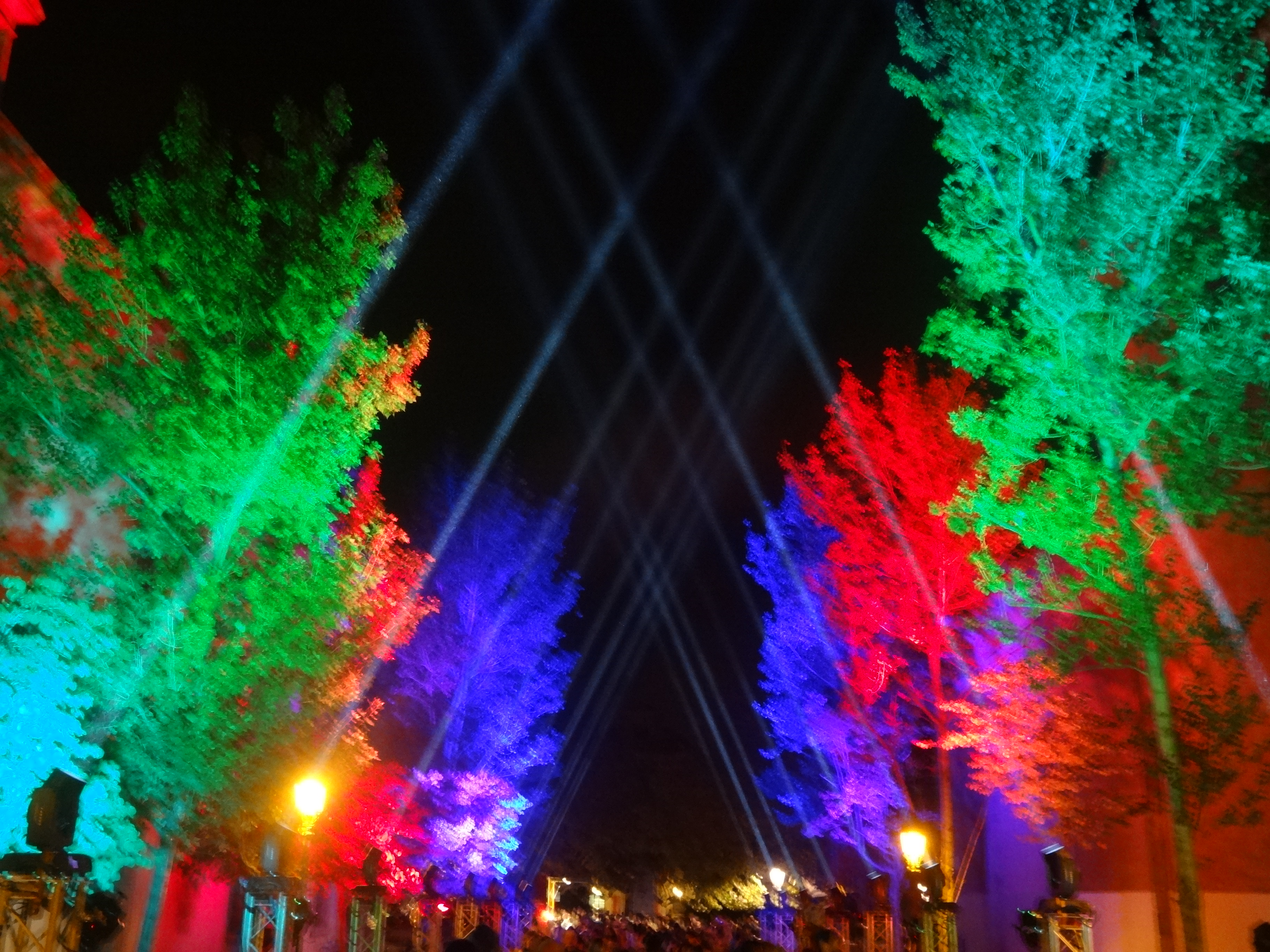 Festival La Mercè 2014 in Parc de la Ciutadella, Barcelona.